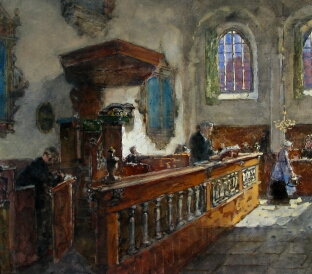 Dorpskerk-Before the Sermon (full painting)